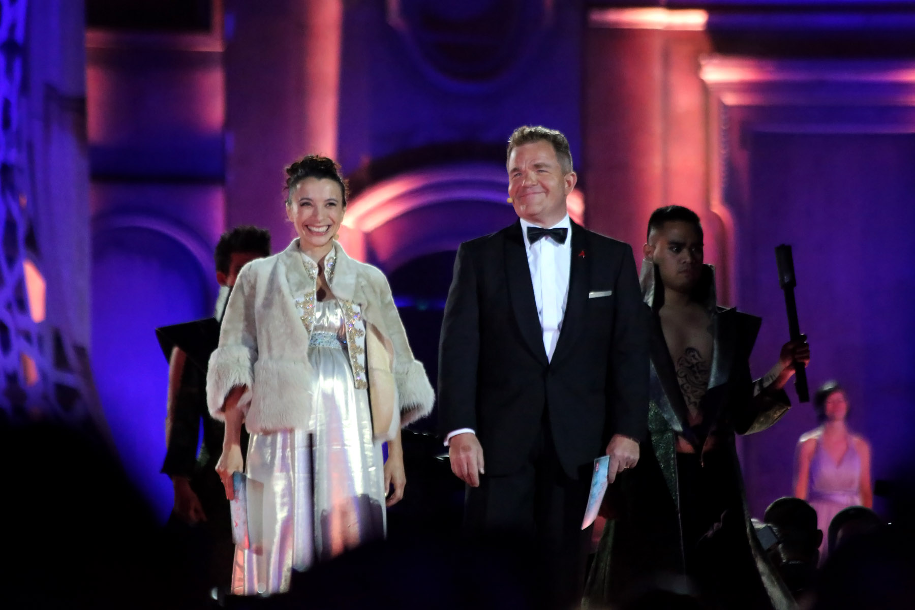 Ruth Brauer-Kvam and Cornelius Obonya, opening show of Life Ball 2013 at the city hall of Vienna, Vienna, Austria.